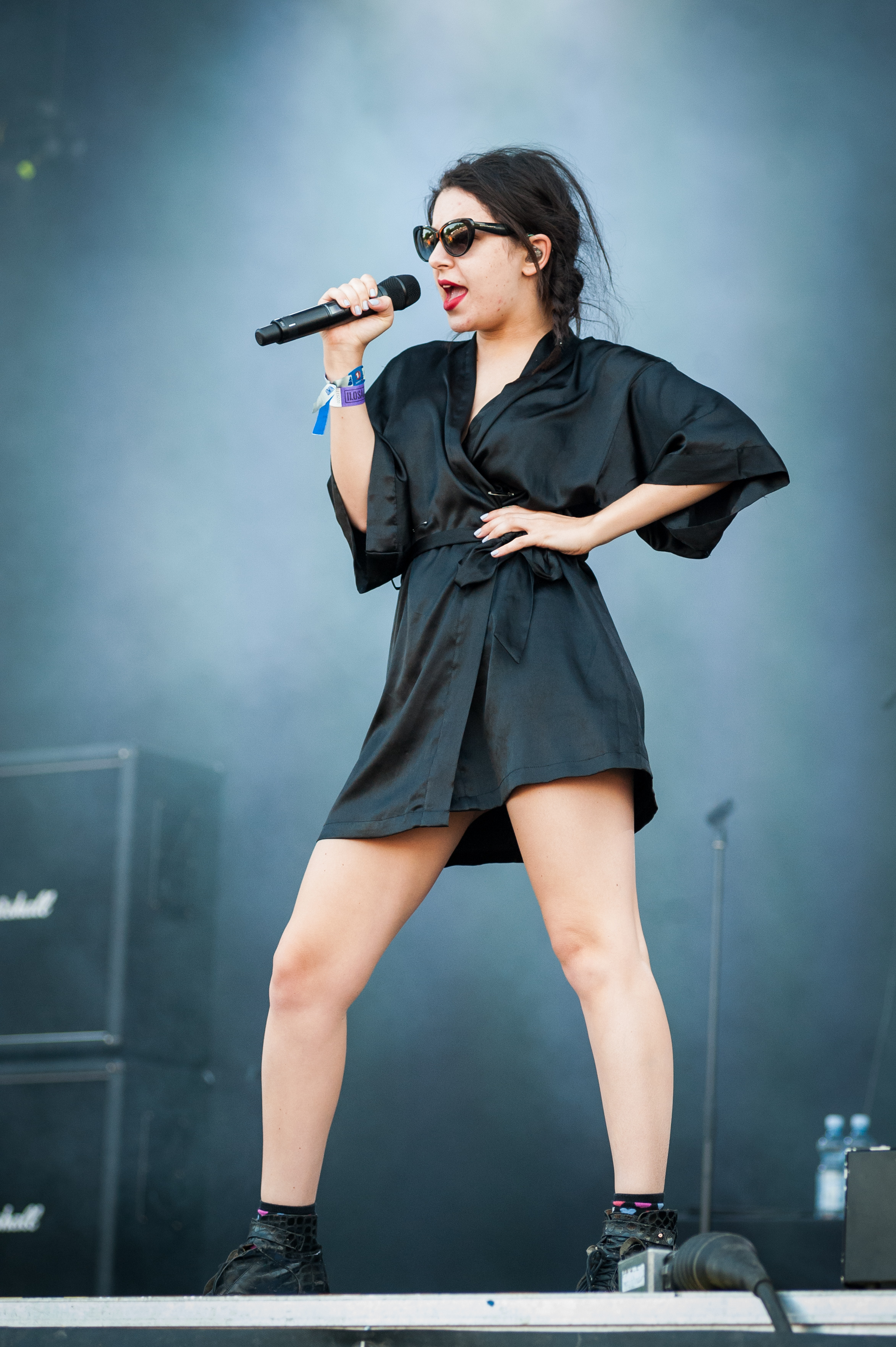 British singer Charli XCX performing at the Ilosaarirock festival in Joensuu, Finland.